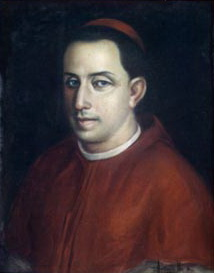 Portrait of Archbishop Manuel Antonio Rojo del Rio Vera (1708 - 1764). He was Archbishop of Manila from 1759 untill his death in 1764.